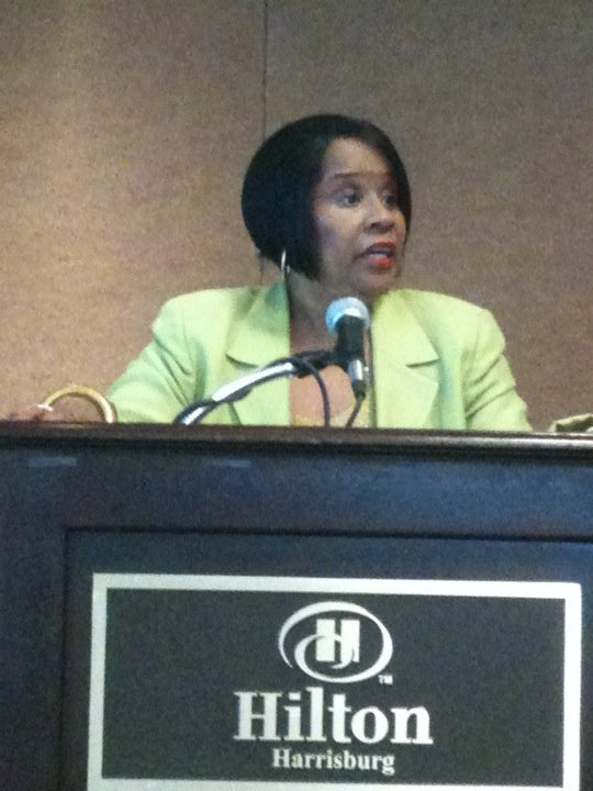 Reneé Amoore, chair of the New Majority Council at PA. GOP meeting, fires up an SRO room.